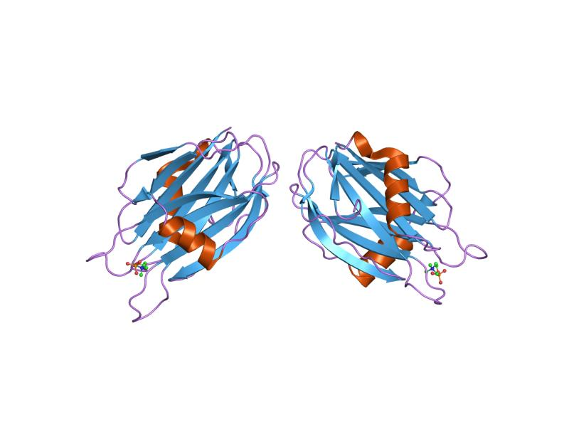 Cartoon representation of the molecular structure of protein registered with 1o72 code.